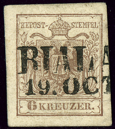 Austrian KK stamp issue I, grey-brown, cancelled at BIAŁA (Galicia, Poland) - now part of Rzeszów